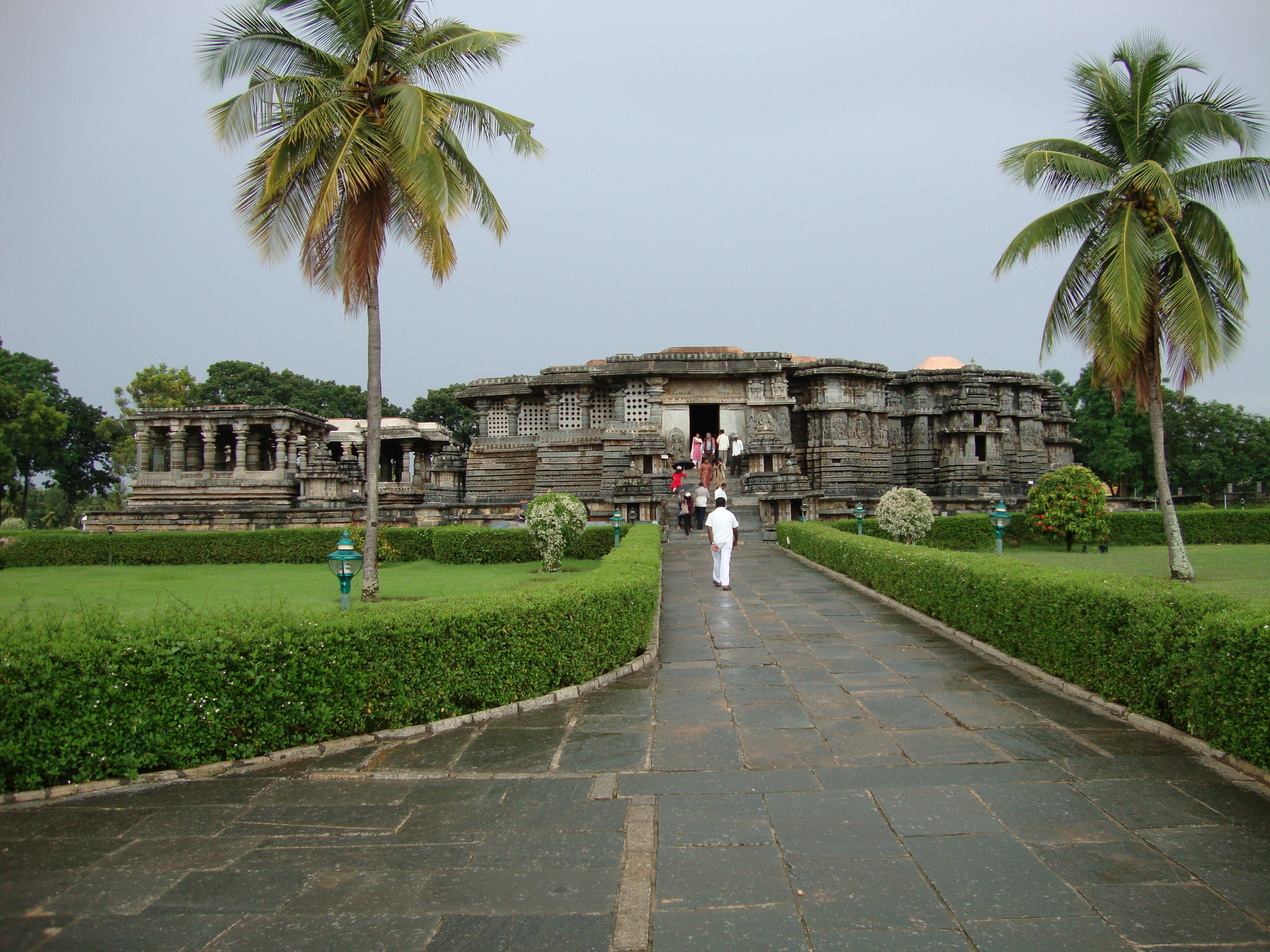 Hoysalesvara Temple